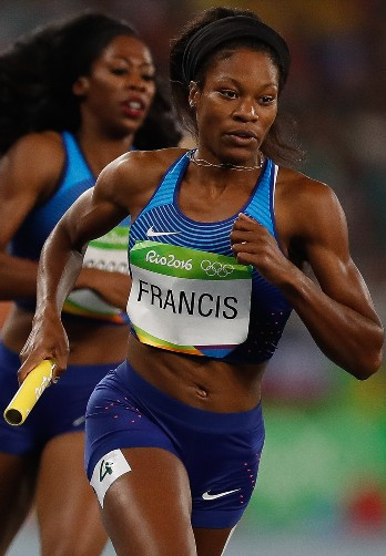 Phyllis Francis, Rio 2016 Olympics, 4x400 m relay